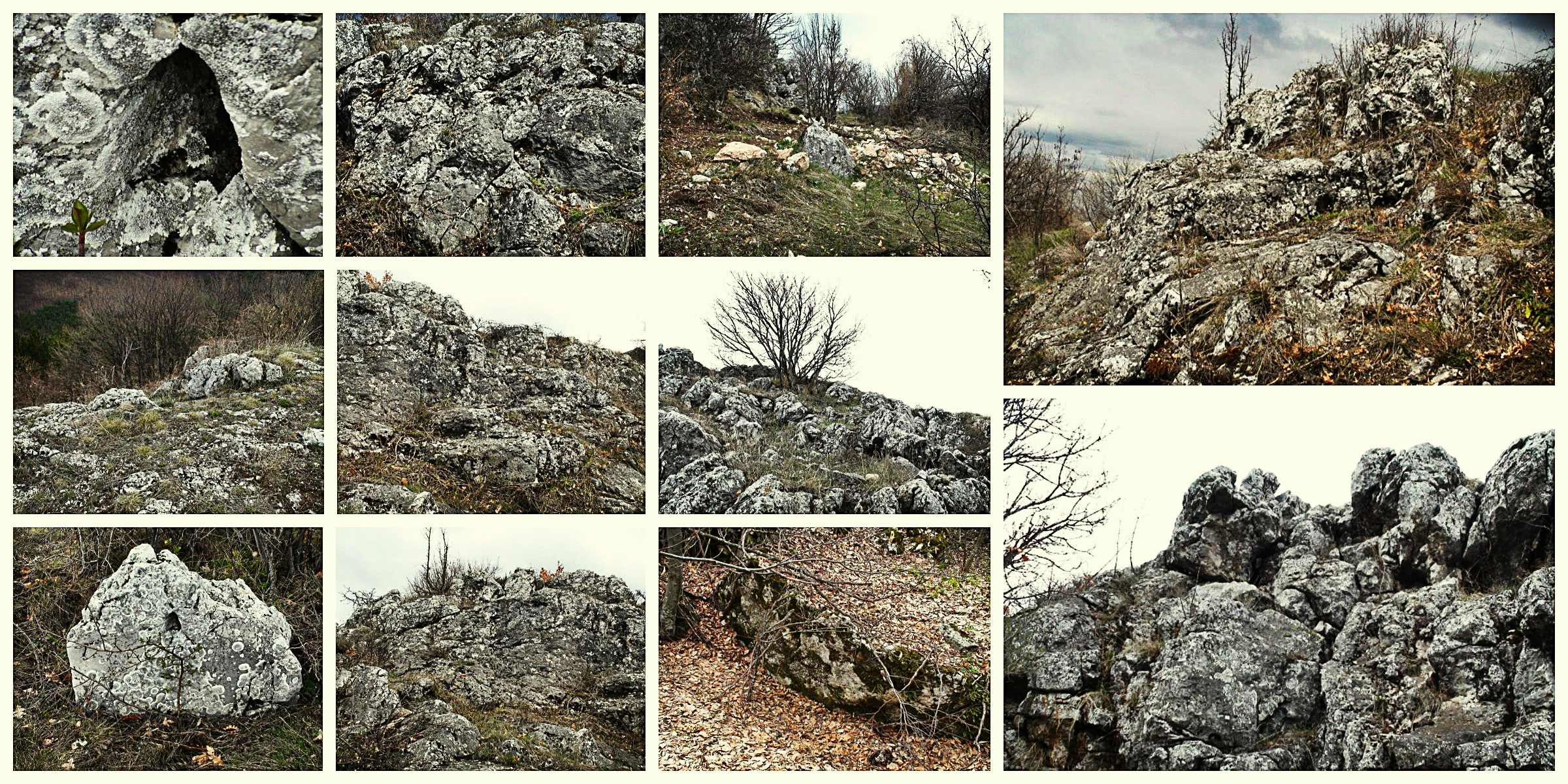 Saint_Peter_Sanctuary_GSekirna_BG